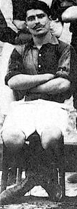 Celal ibrahim